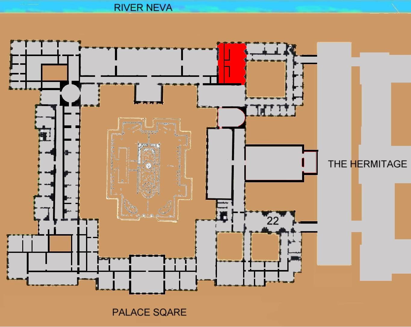 Location plan of the Jordan Staircase at the Winter Palace, drawn by uploader